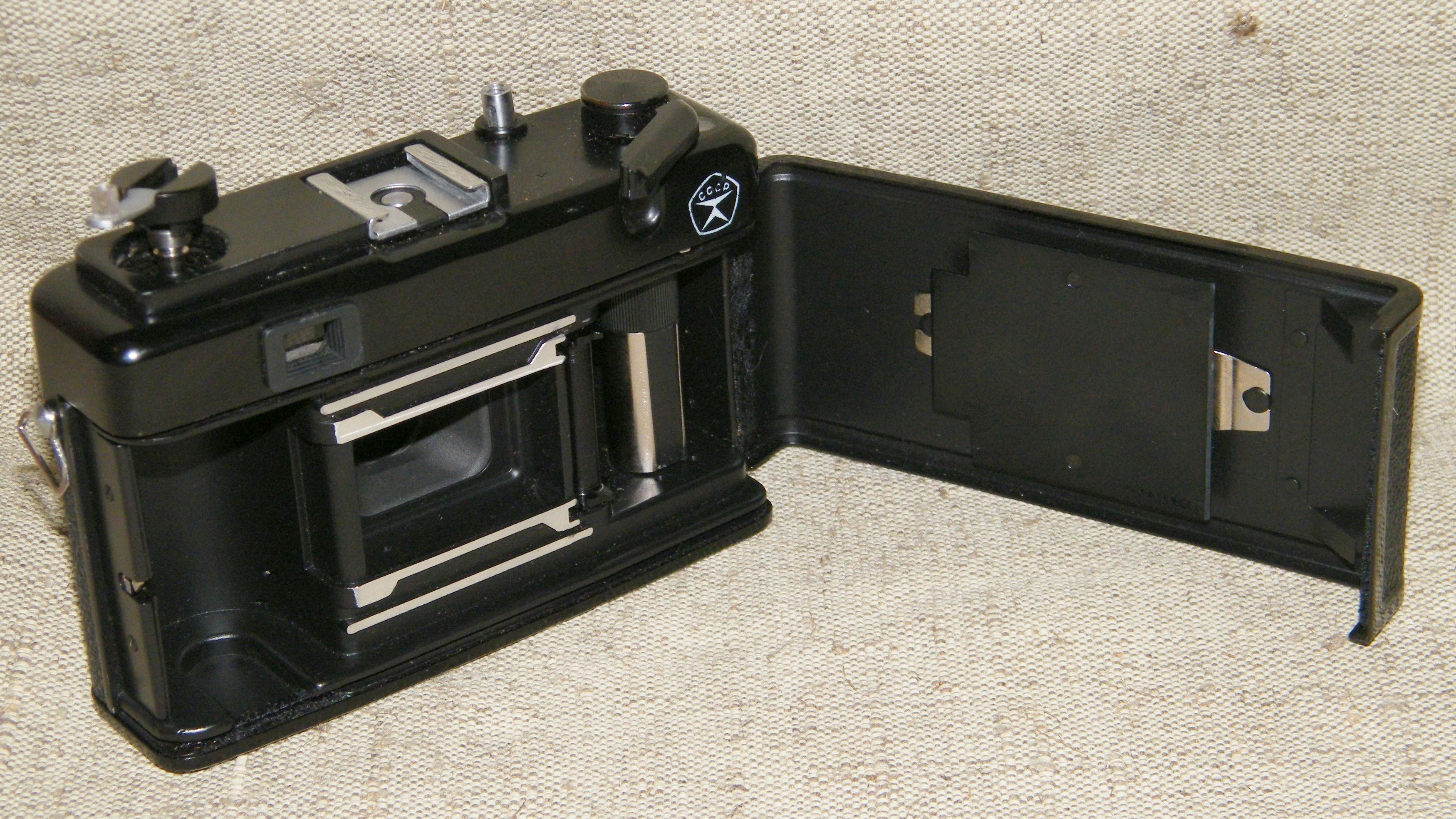 FED 35